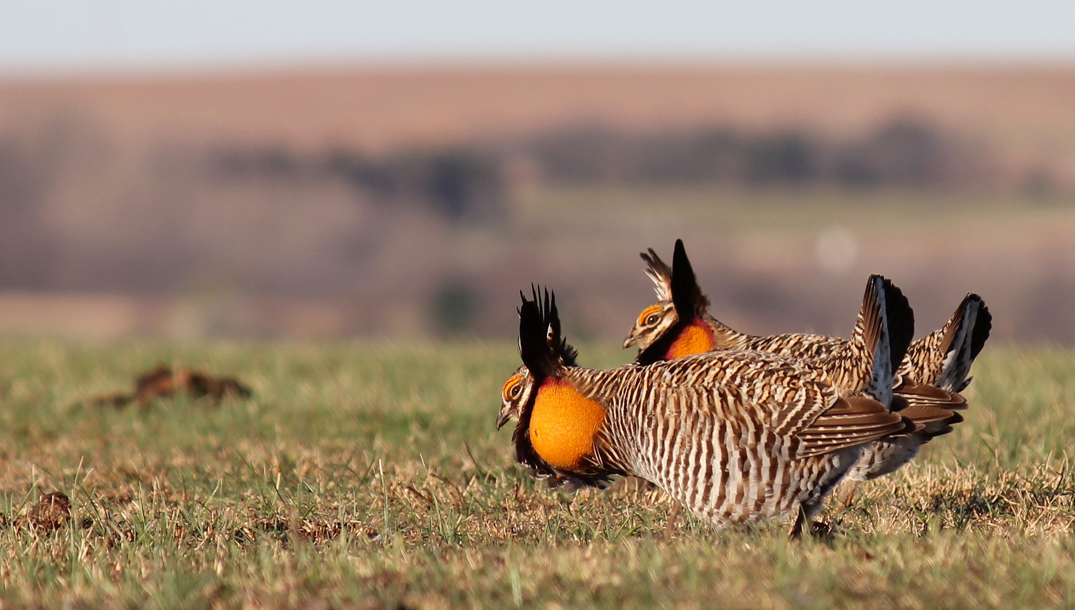 Greater prairie-chickens on the booming grounds, putting on their best dance moves in the largest remaining block ofin the world. Photo taken on a private ranch in the Flint Hills of Kansas Credit: Greg Kramos Photo Contest Entry #73